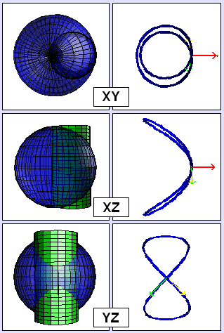 Viviani's Curve with projections on the 3 coordinate planes